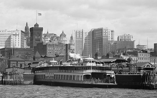 Staten Island Ferry terminal in Manhattan from the East River, c.1905